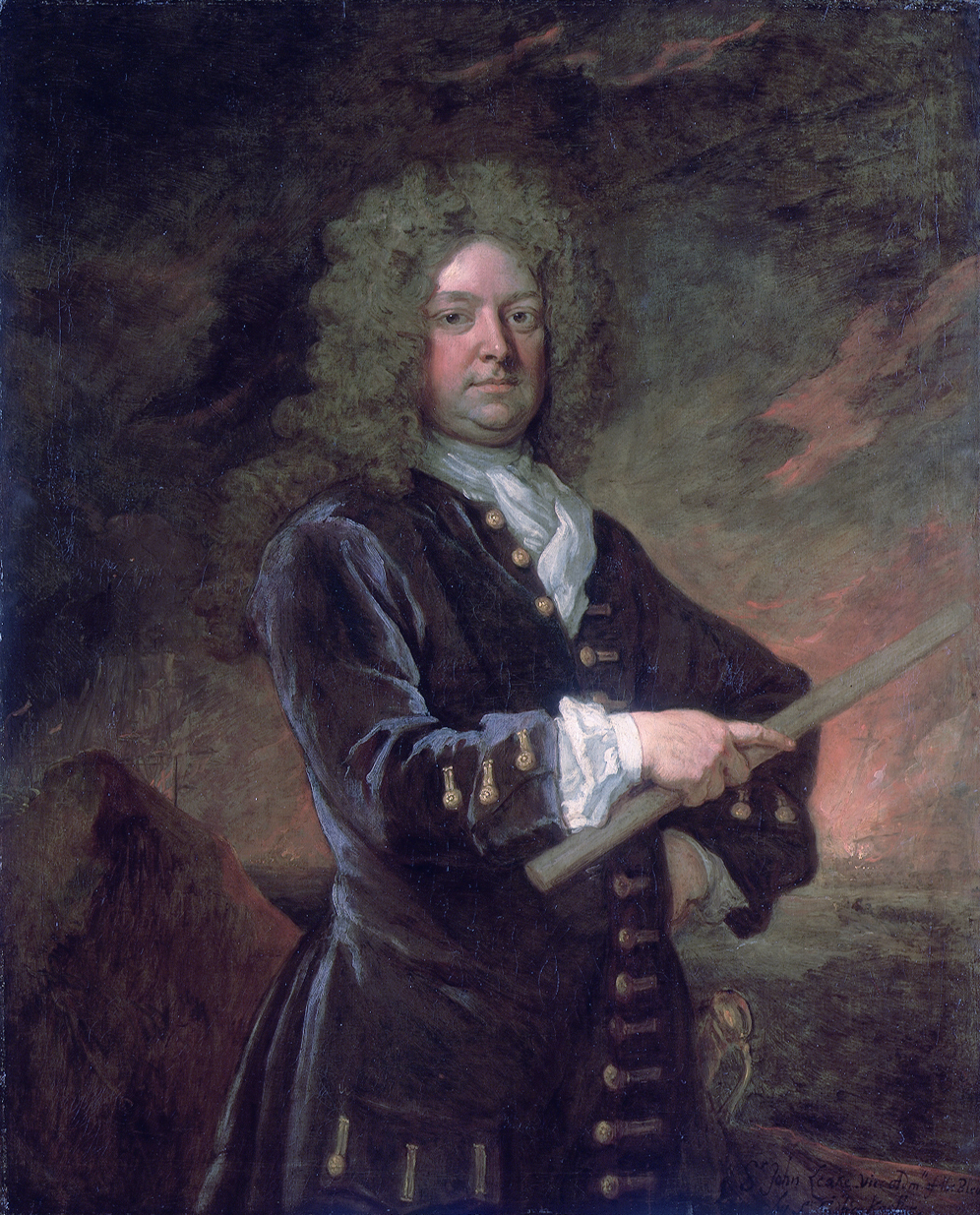 Vice-Admiral John Leake (1656-1720) oil on canvas 127 x 101.6 cm late 17th century - early 18th century